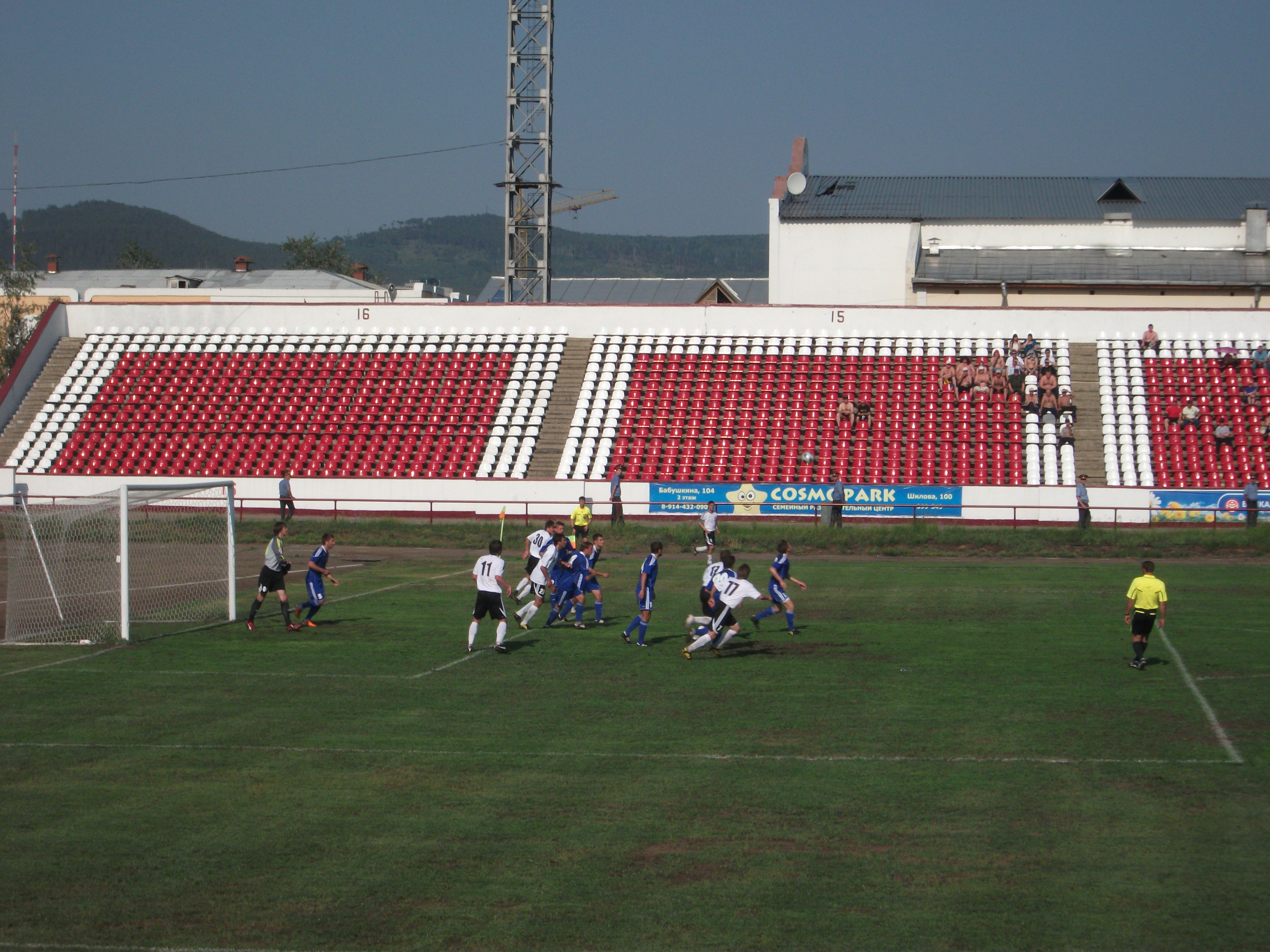 Episode of the match «Chita» - «Irtysh». 12th round of the competition in «East» zone of the Russian second division. June 20, 2011.